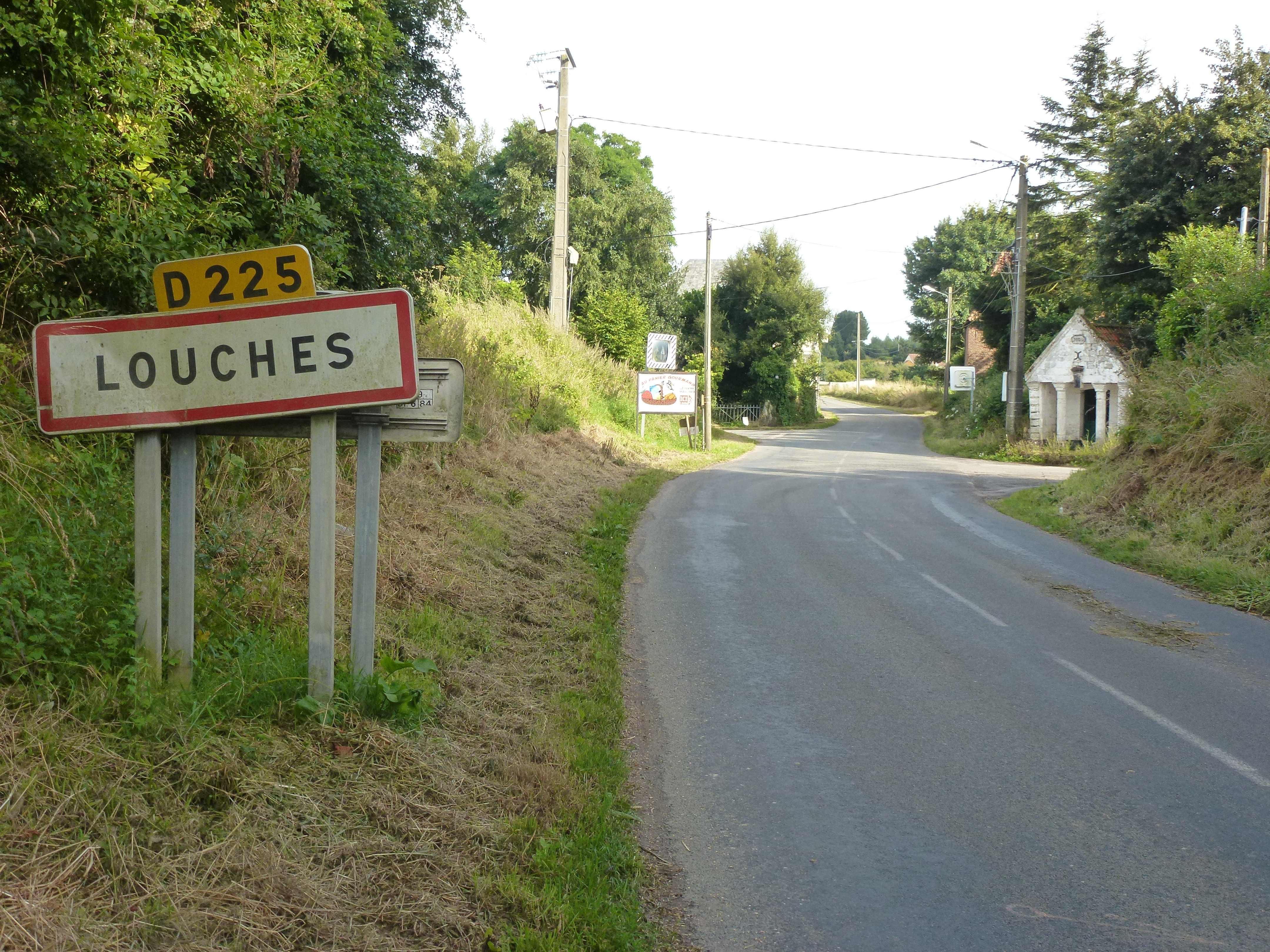 Louches (Pas-de-Calais) city limit sign